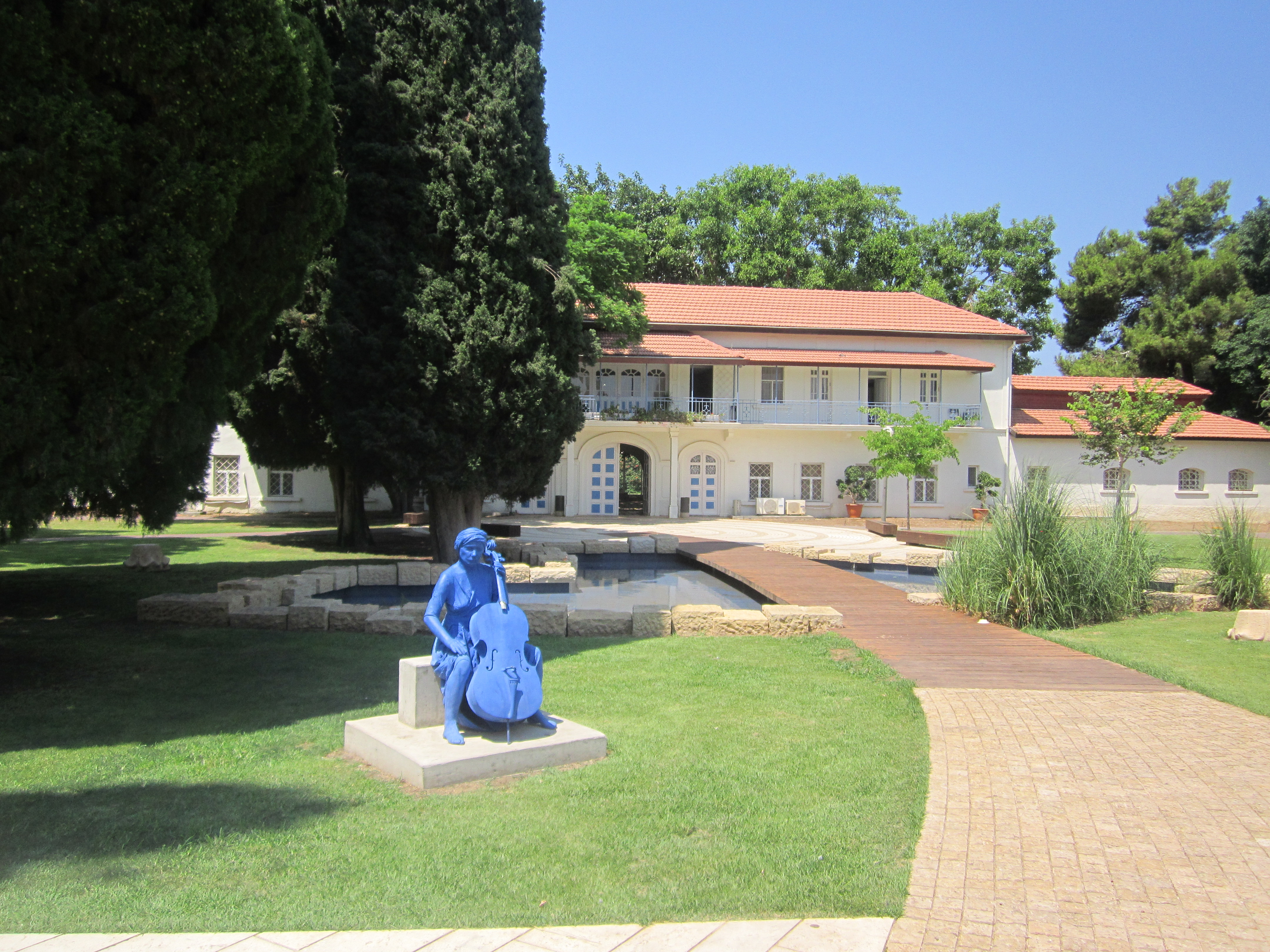 Khan building in Manof youth village, Acre